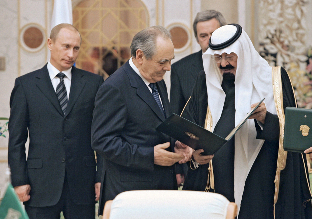 “Russian president's visit to Saudi Arabia”. Left to right: Russian President Vladimir Putin, President of Tatarstan Mintimer Shaimiev and King Abdullah of Saudi Arabia at a ceremony to award the leader of Tatarstan the King Faisal Prize for service to Islamic culture.